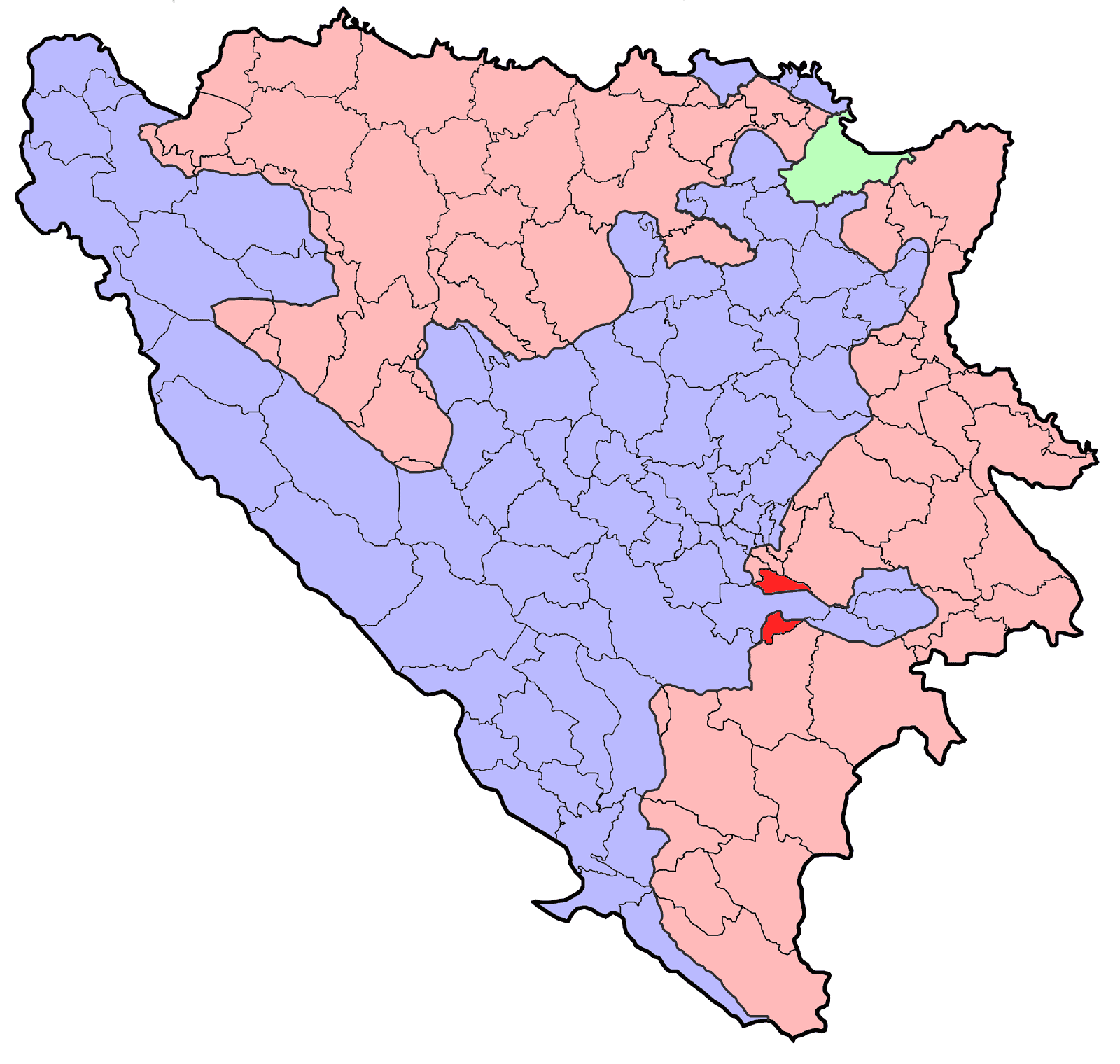 Location of Trnovo (RS) municipality in Bosnia and Herzegovina.